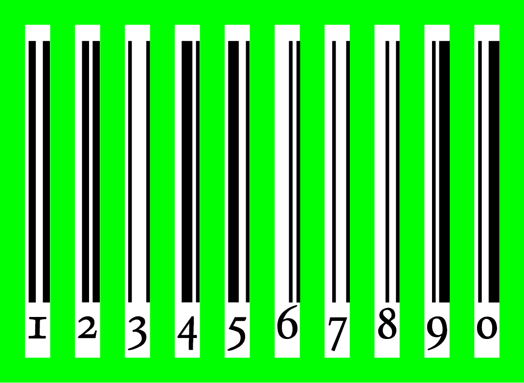 whole EAN font, code G